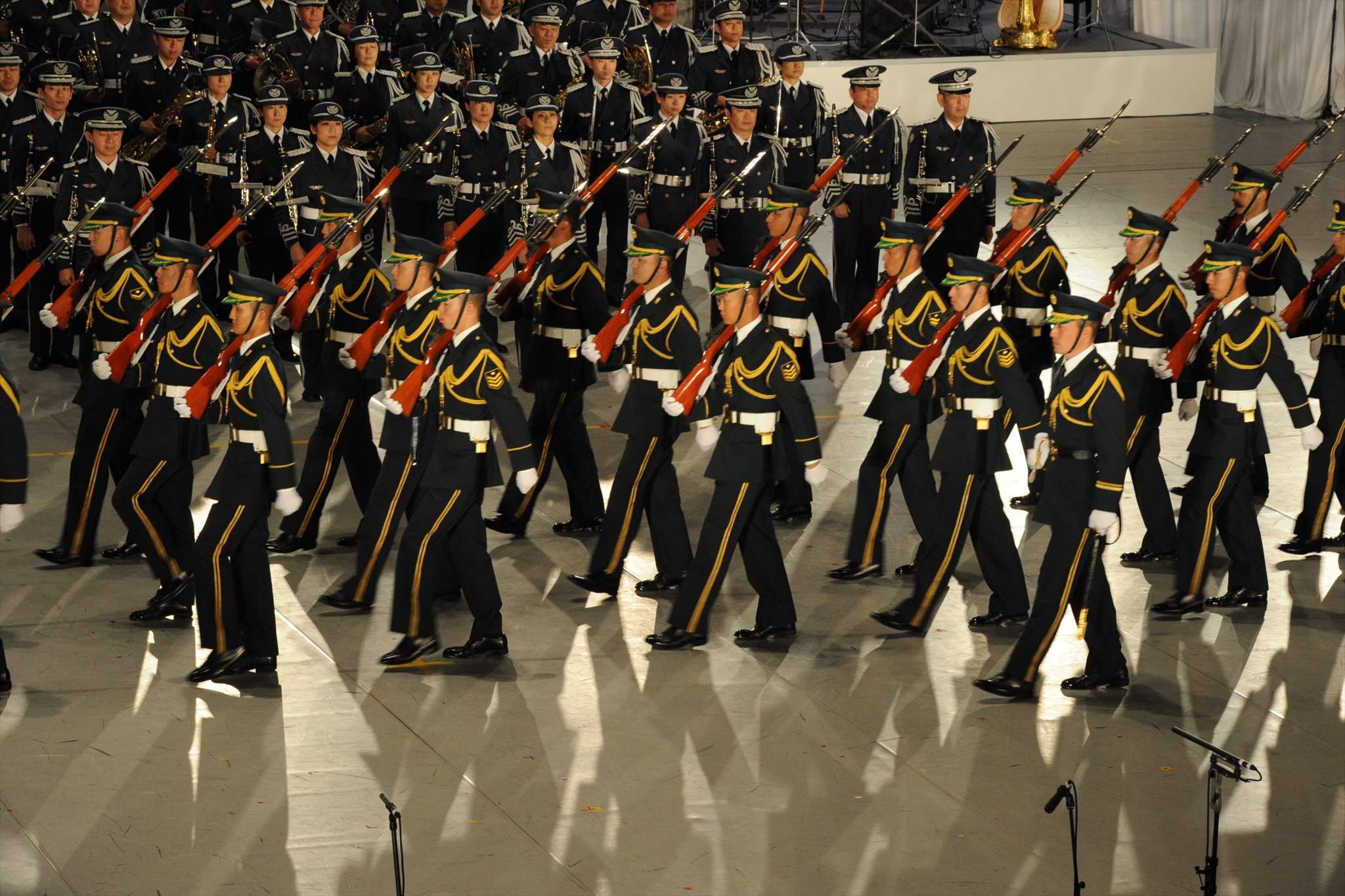 Title HAR_2903_R.JPG Album 自衛隊音楽まつり 平成２４年度自衛隊音楽まつり オープニング